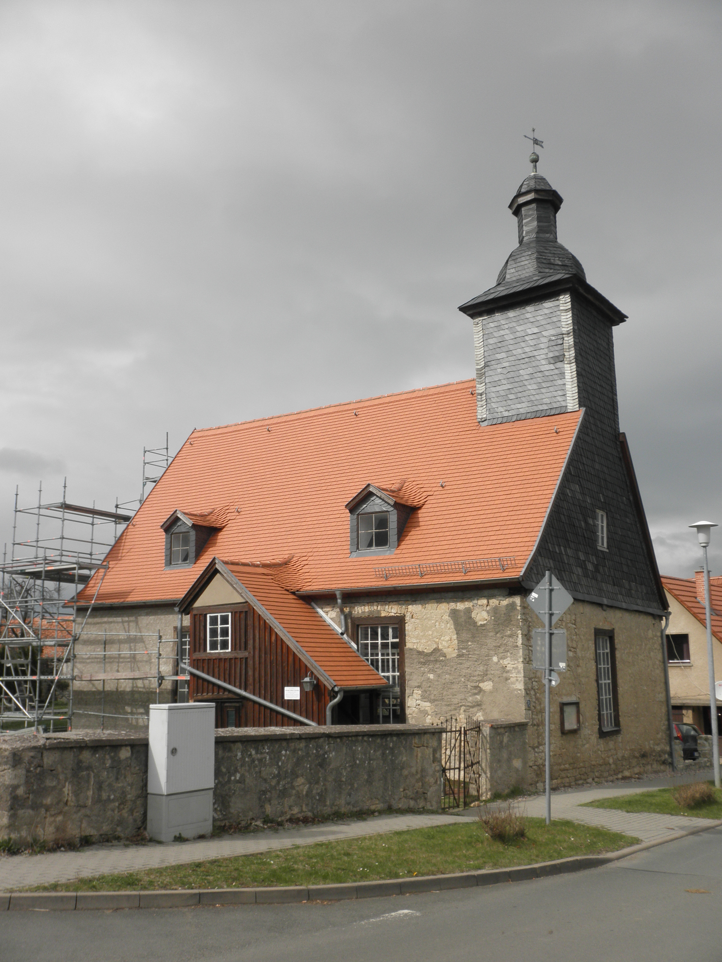 Church in Mechelroda in Thuringia